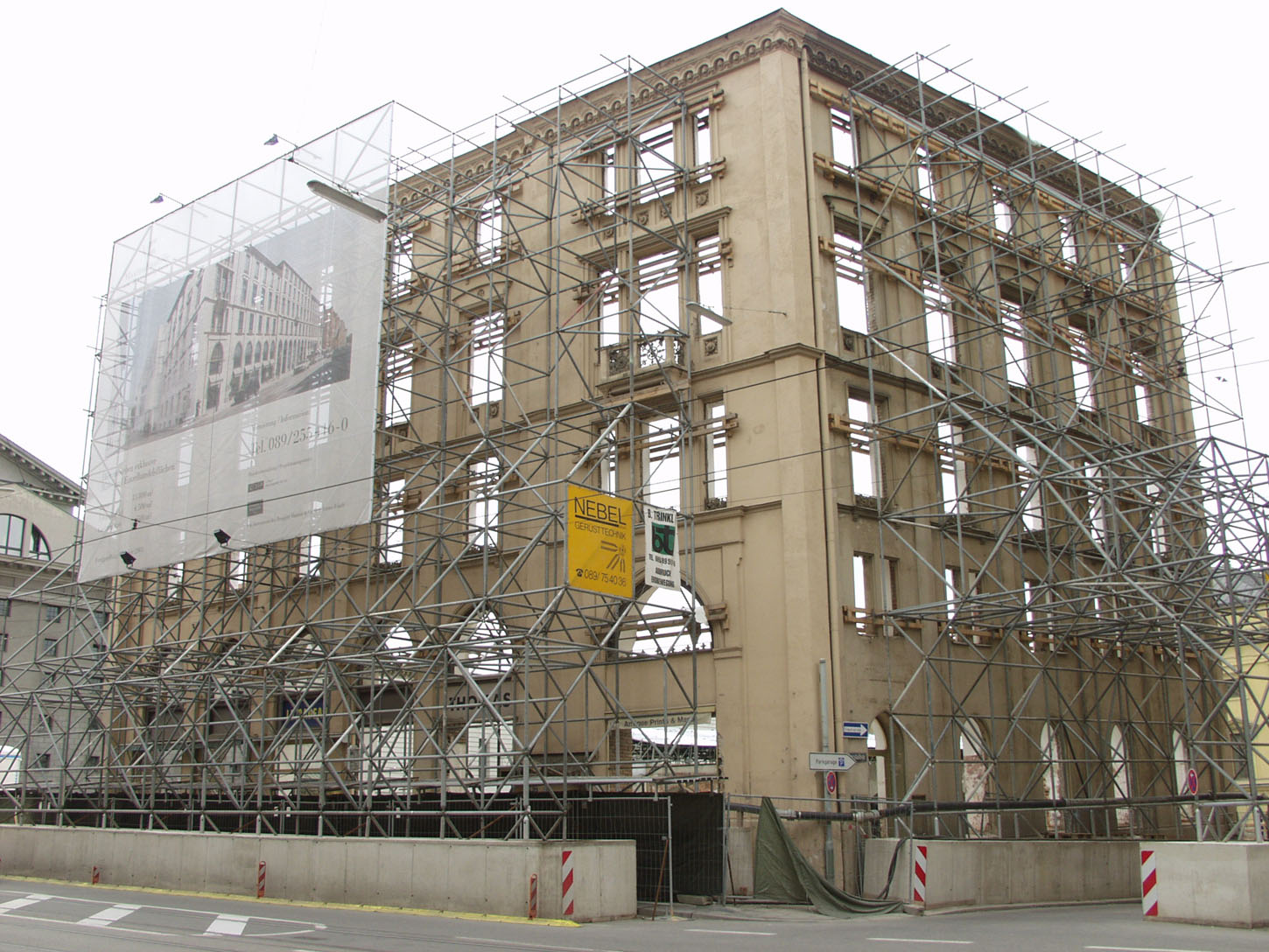 Front of Munich's Buerkleinbau during the reconstruction of the Marstallplatz